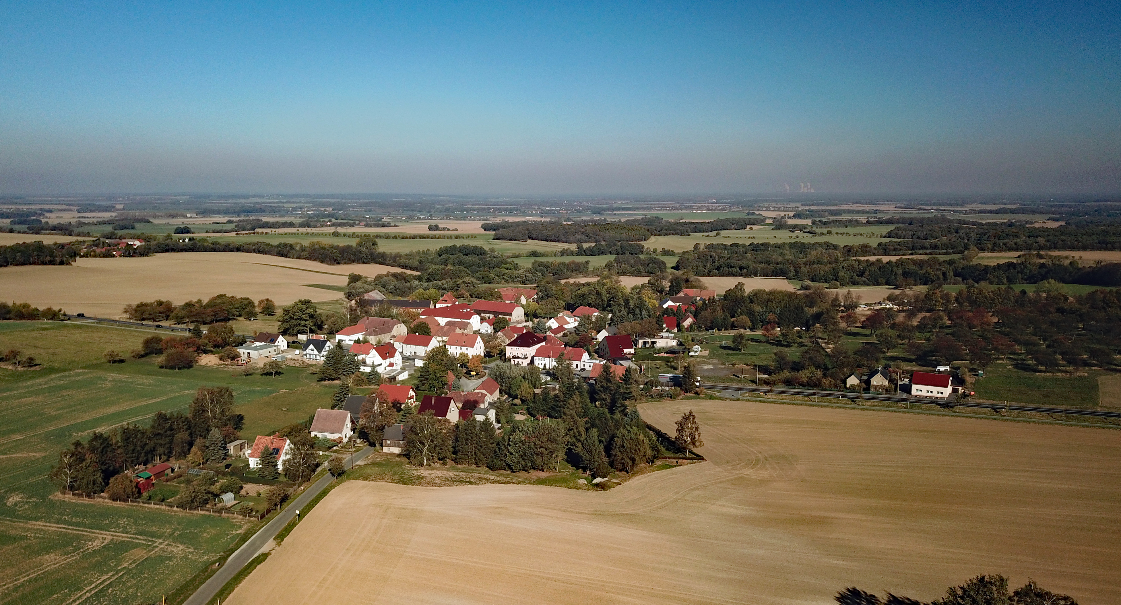 Steindörfel (Hochkirch, Saxony, Germany) Hornjoserbsce: Powětrowy wobraz Trjebjeńcy pola Bukec